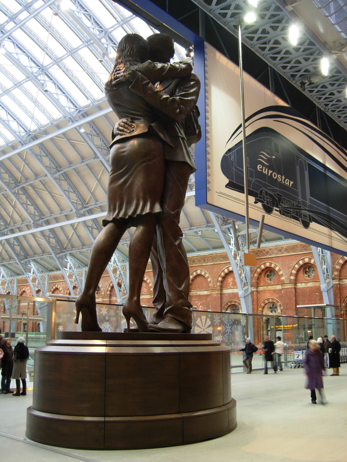 Statue by Paul Day at St Pancras International Station, London, UK.